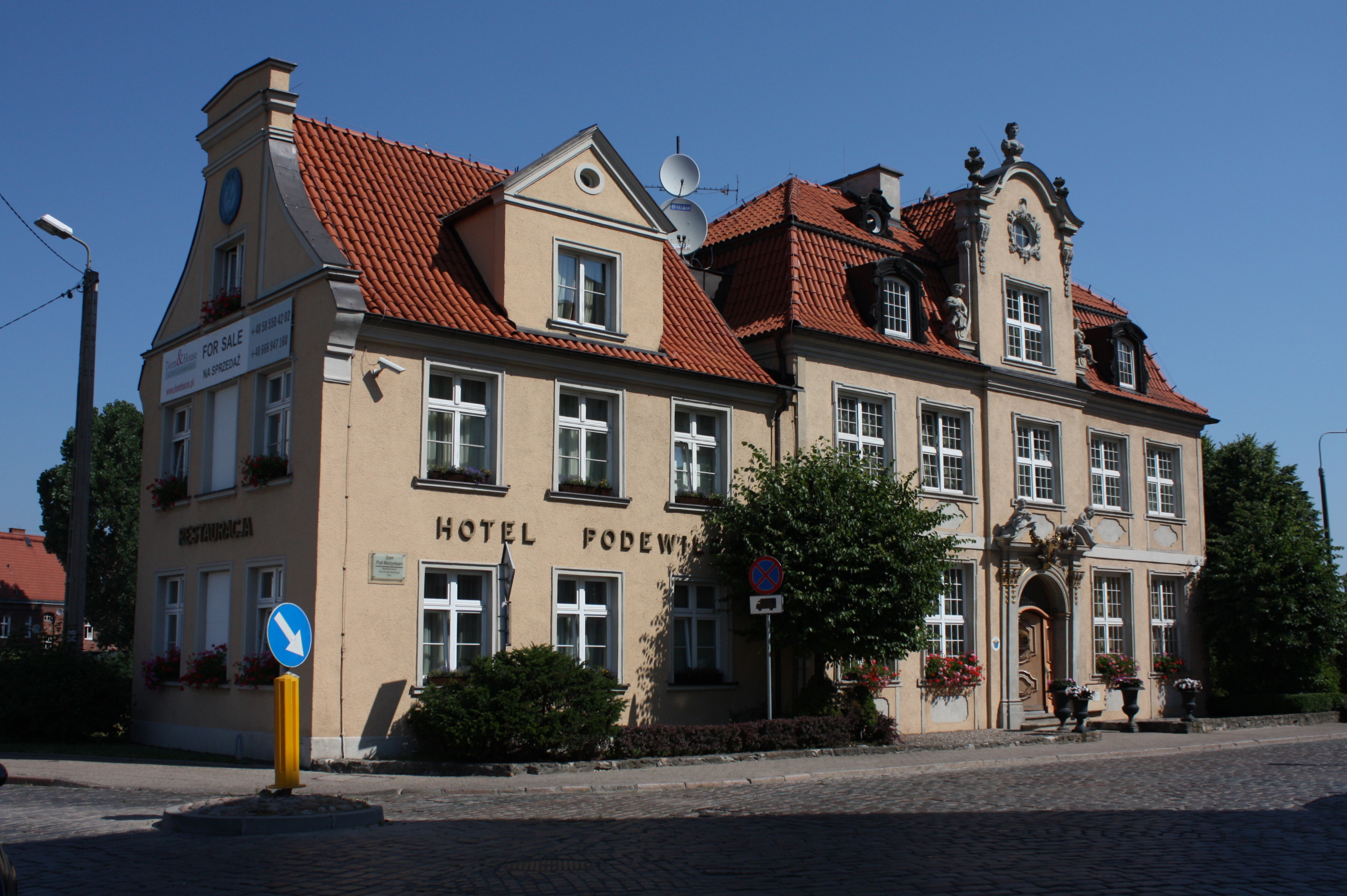 Gdańsk, "Under Black Head" House